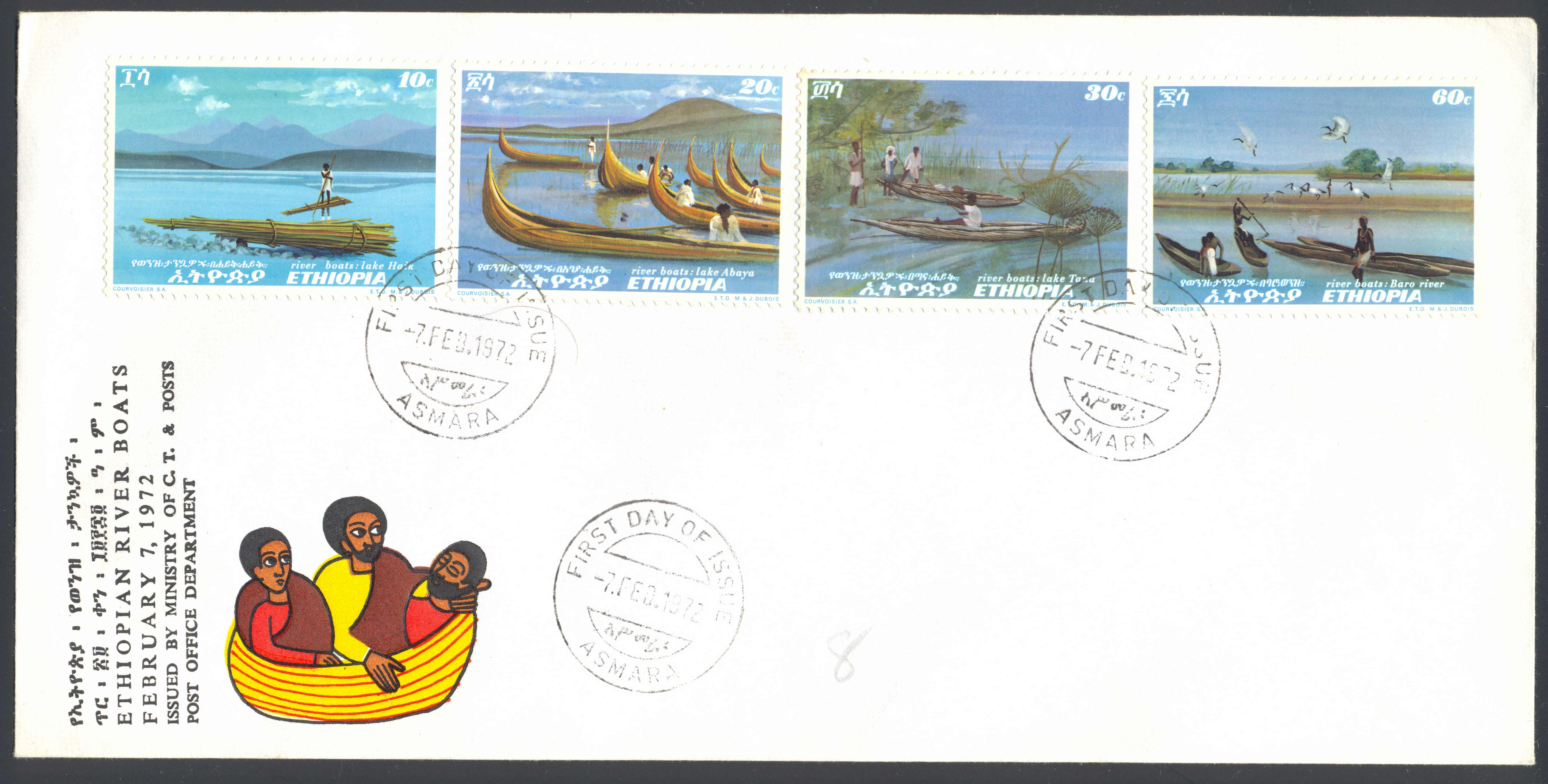 Ethiopian First Day Cover, Ethiopian river boats, February 7, 1972.